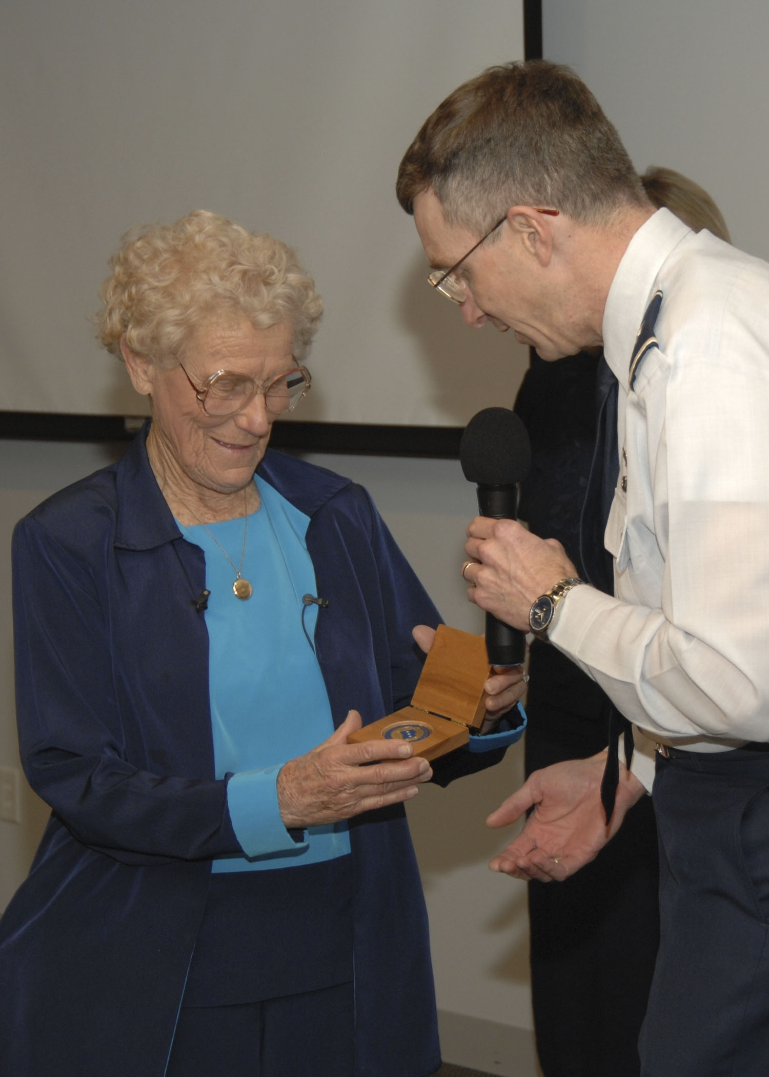 Los Angeles Air Force Base -- To kick off Women's History Month, the Federal Women's Program Committee sponsored a luncheon in the Gordon Conference Center March 28. The guest speaker was Mrs. Iris Cummings Critchell, a very distinguished and honored aviator. She is a member of the National Association of Flight Instructors Hall of Fame and also honored by the FAA with the Wright Brothers Master Pilot Award, a member of the WASP (Women's Air Force Service Pilots) as well as an Olympian. During her speech, "Women in Aviation History: Their Legacy and Our Challenge for the Future," Mrs. Critchell highlighted her venerable career from the very beginning in aeronautics and flight (1939-1941) to include her work in the Ferry Command Years (1942-1944), the All-Woman Transcontinental Air Race (1947-1977), and her experiences at both the University of Southern California and Harvey Mudd College.